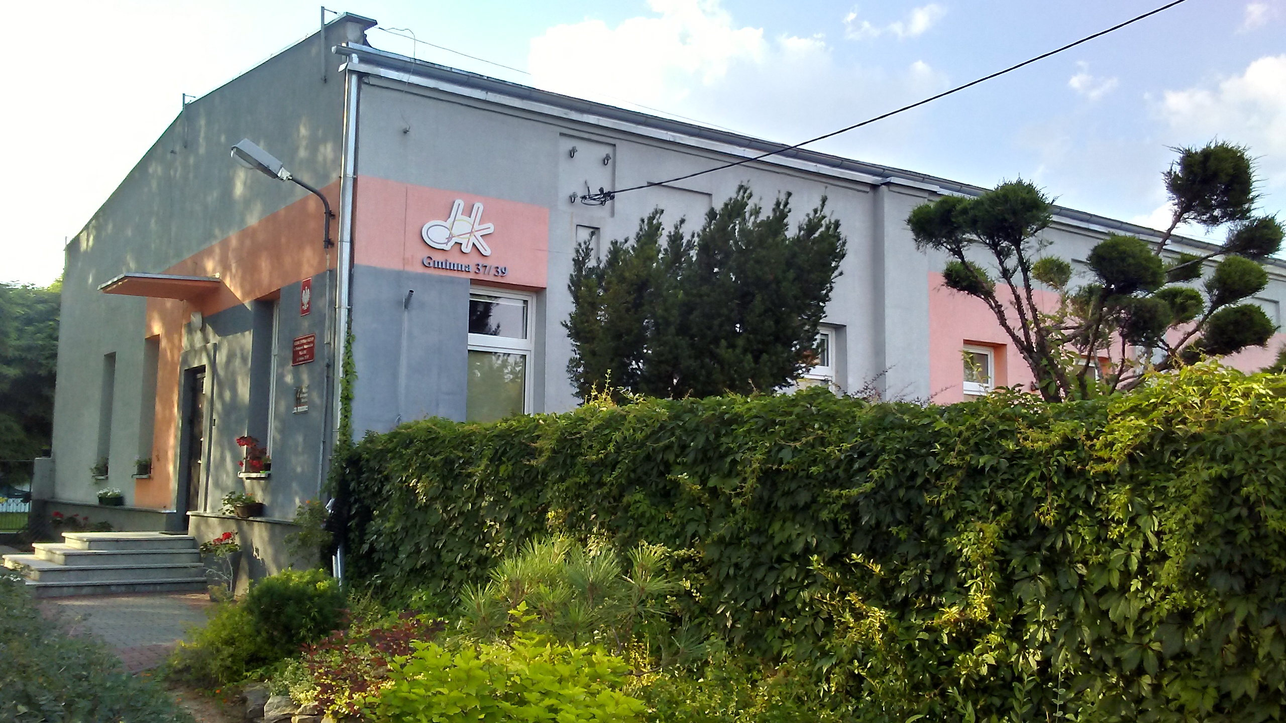 The District Cultural Center, Białobrzegi – district of Tomaszów Mazowiecki, Poland